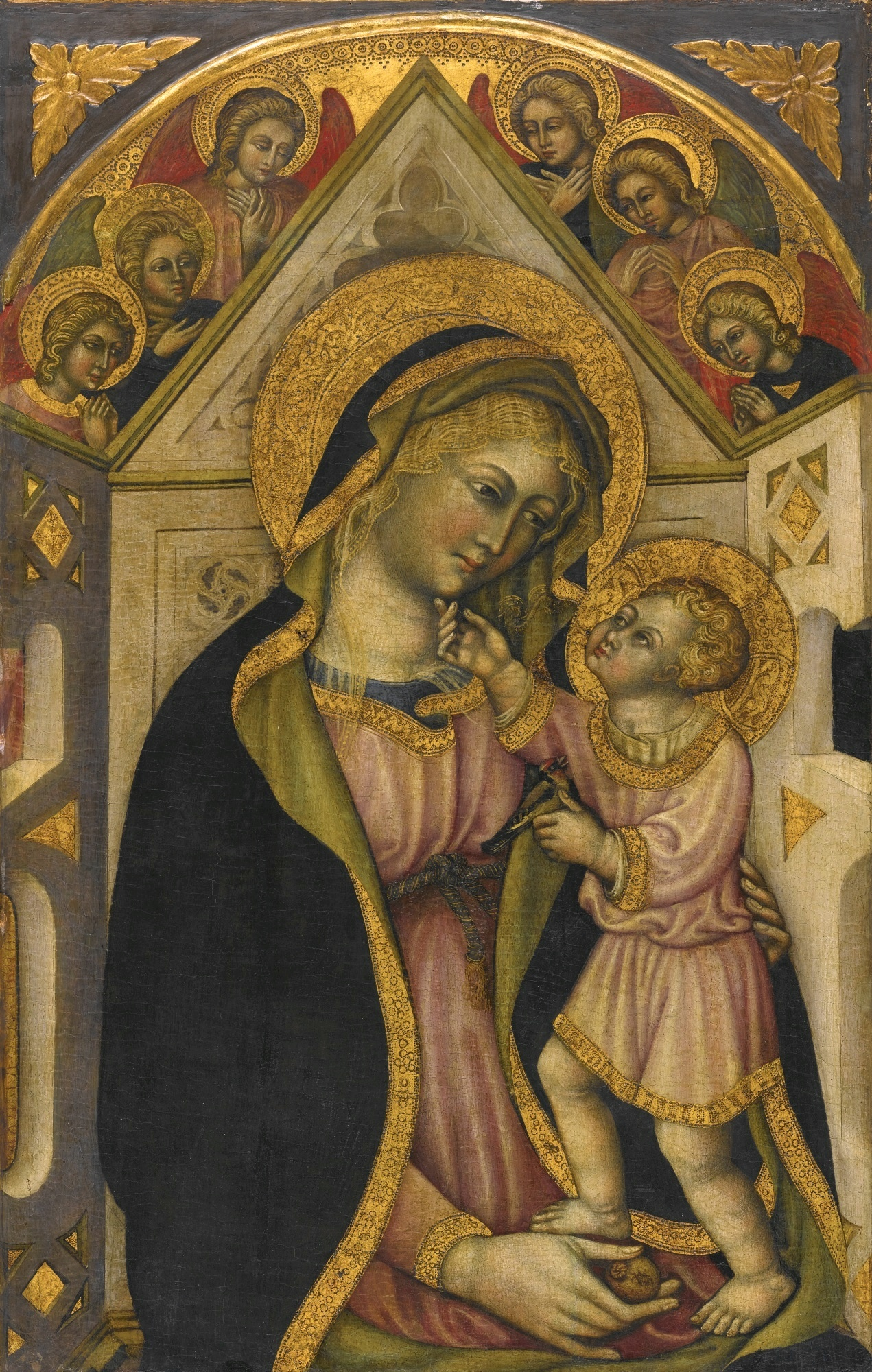 PRIAMO DELLA QUERCIA (PRIAMO DEL PIETRO), ACTIVE IN SIENA 1442-1467, THE MADONNA AND CHILD ENTHRONED WITH ADORING ANGELS, tempera on panel, gold ground, a fragment; overall, with added strips: 84.4 by 54 cm.; painted surface: 67.3 by 52.5 cm.